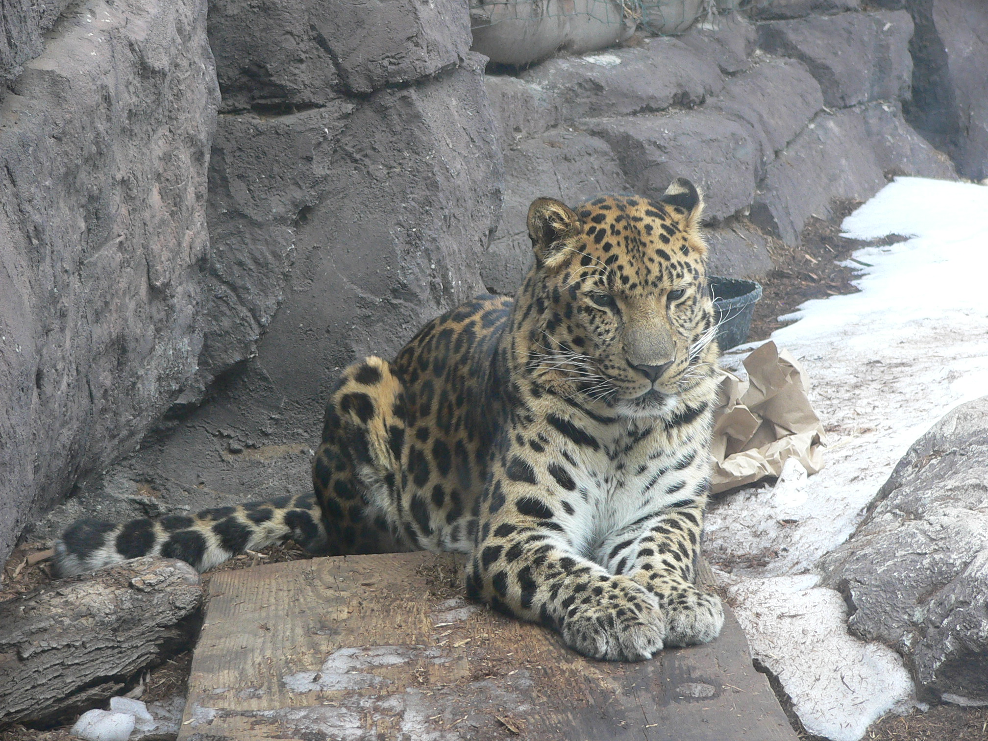 Amur Leopard at Philadelphia Zoo.